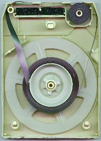 photo of inside of 8-track tape cartridge Note: below text copied from Talk:8-track cartridge: I've opened up one of my 8-track cartridges and will be posting a picture of its internal mechanism to replace the closed one I put there in the meantime, but it's going to show there's ONLY ONE REEL in the cartridge, so the article is wrong. Whoever wrote it must have been working from a written description, because anyone who's ever taken one apart to fix a broken tape knows there's only one reel, and the tape comes off the bottom and winds back on the top, and the tracks are next to each other on the single tape on the single reel. So will someone please rewrite the article, so when I put the picture there we won't look stupid? -- isis 20:37 Oct 21, 2002 (UTC) From this info, the image is apparently original to Isis for Wikipedia, so I am tagging it as GFDL. -- Infrogmation 18:11, 22 Dec 2004 (UTC)